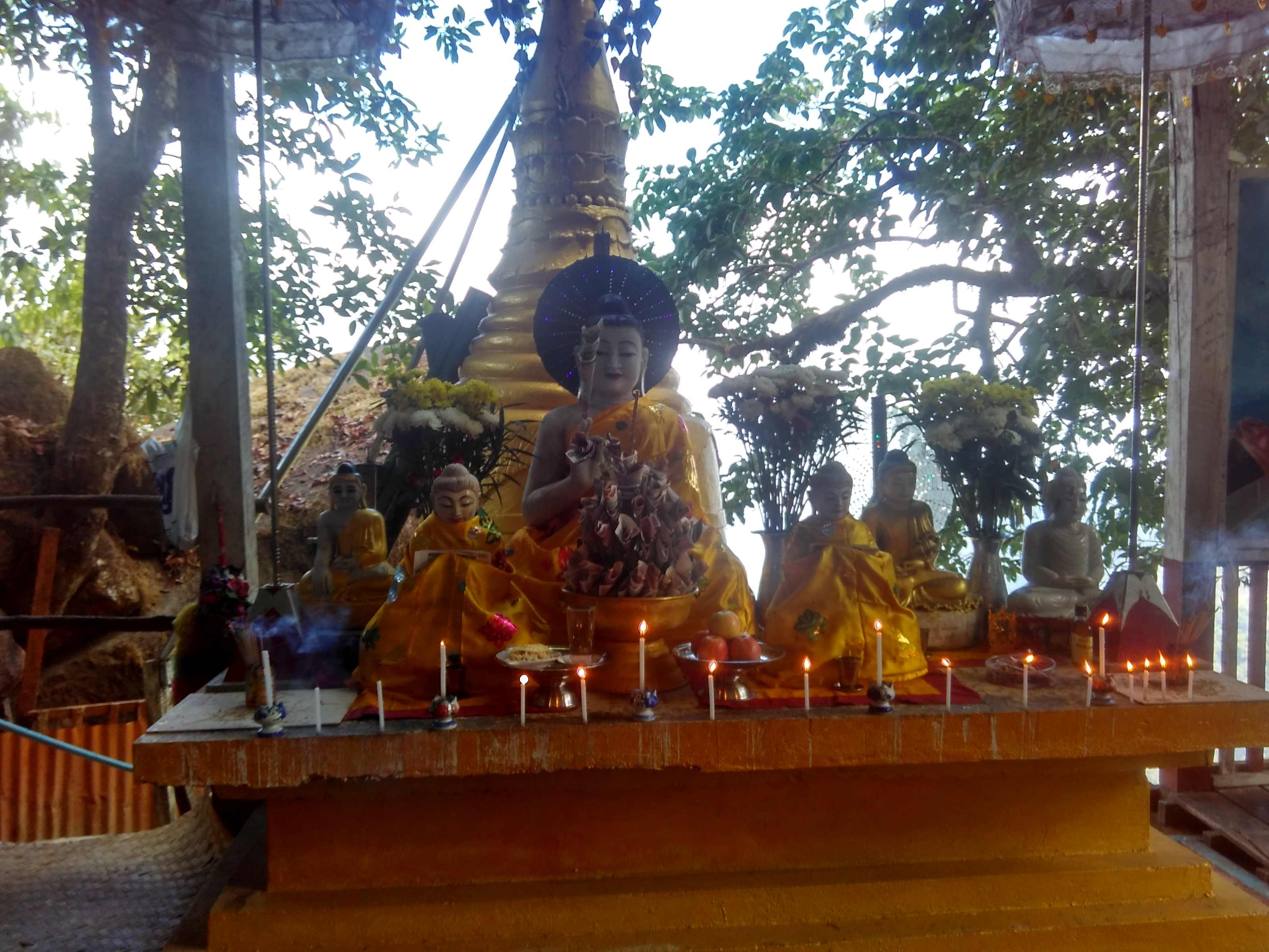 Kyee Pa Sap Stupa မြန်မာဘာသာ: ကျီးပါးစပ်စေတီတော်။ မွန်ပြည်နယ်၊ ကျိုက်ထိုမြို့၊ ကျိုက်ထီးရိုးသာသနာ့နယ်မြေ၊ ကျီးပါးစပ်ဂူပေါ်တွင် ရှိသည်။